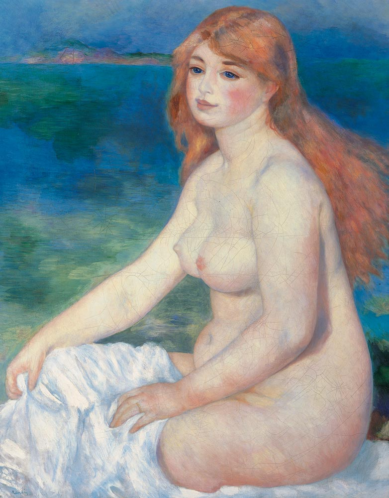 1882 version of Baigneuse Blonde, Blonde Bather in Pinacoteca Agnelli, Turin.